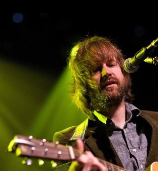 Jon Allen